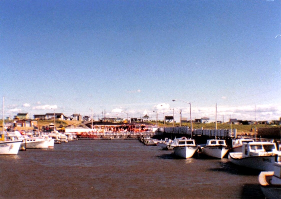 The marina in Bas-Caraquet, NB, Canada